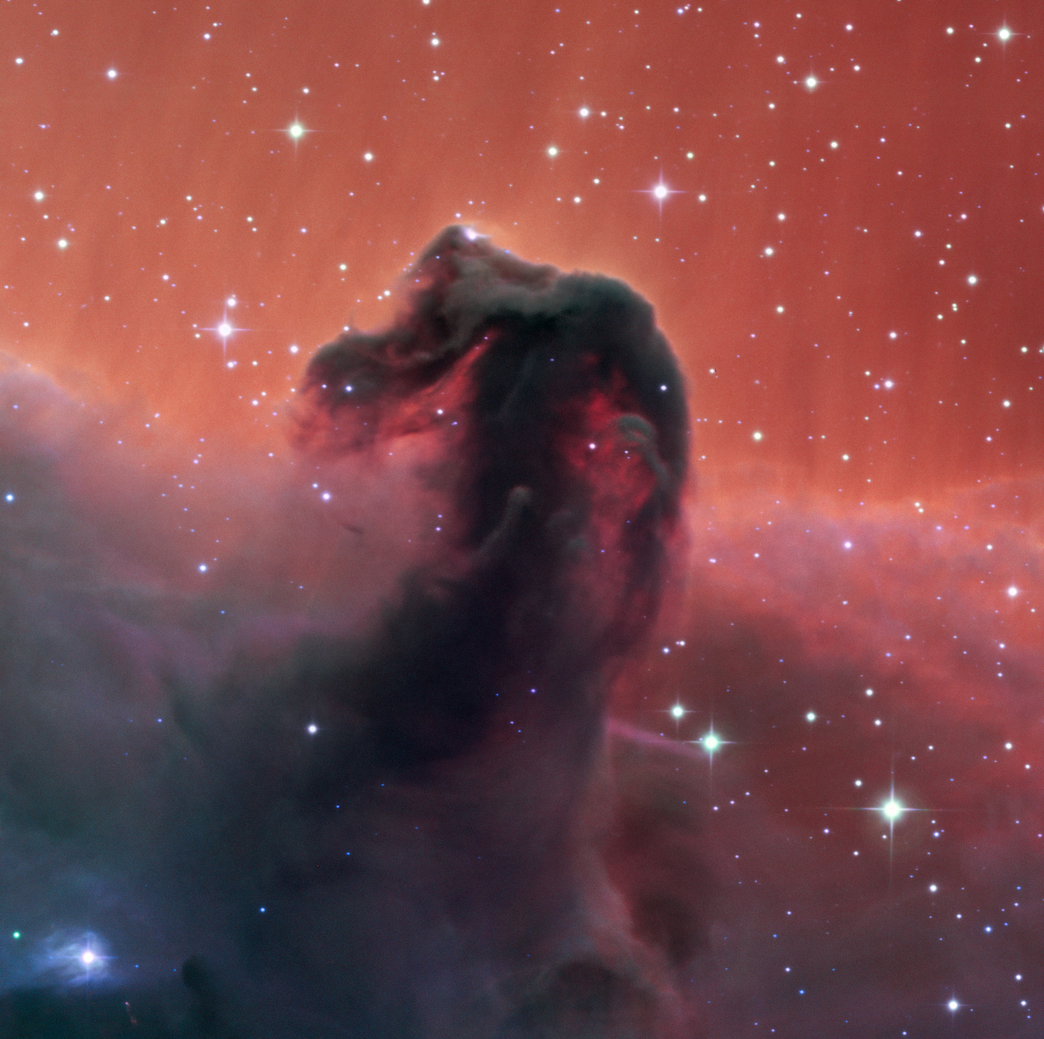 This first light image from the Callisto telescope at the SPECULOOS Southern Observatory (SSO) shows the famous Horsehead Nebula .. The SSO is installed at ESO’s Paranal Observatory in the vast Atacama Desert, Chile, and consists of four 1-metre planet-hunting telescopes. SPECULOOS will focus on detecting Earth-sized planets orbiting nearby ultra-cool stars and brown dwarfs.